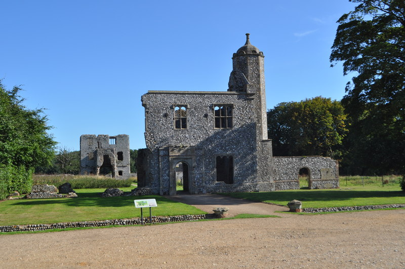 Baconsthorpe Castle, OS grid TG1238. Baconsthorpe Castle is a fortified manor house, now a ruin, to the north of the village of Baconsthorpe, Norfolk. It has been designated by English Heritage as a Grade I listed building, and is a Scheduled Ancient Monument.